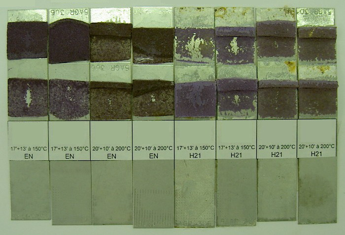 Influence of aging (H21: wet heat for this test) on the adhesion of an automotive epoxy based structural adhesive sealant applied at body in white chain (on oily sheet metal). Support: automotive galvanized sheets, thickness: 0.7 mm. Sample: glass/epoxy-based (composite) automotive crosslinkable adhesive (same batch tested; sealant (uncured) is colored in purple), thickness: 2 mm. Operating procedure : assembling + curing at 150 or 200 °C (crosslinking) + remaining for 24 hours in a conditioned rooom at 23 °C and 50% RH + tensile test (at 23 °C and 50% RH; v=10 mm/min); or assembling + curing (at 150 or 200 °C) + remaining for 24 hours + aging (H21) + tensile test. "H21" means wet heat accelerated aging: 100% HR for 21 days at 70 °C (using a cataplasma). The ultimate tensile-shear strength is calculated (average: about 4 MPa) for each test sample.